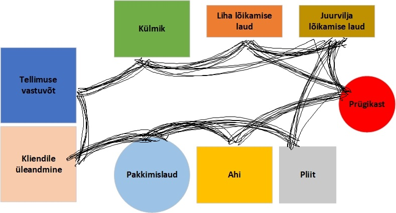 Optimized spaghetti diagram